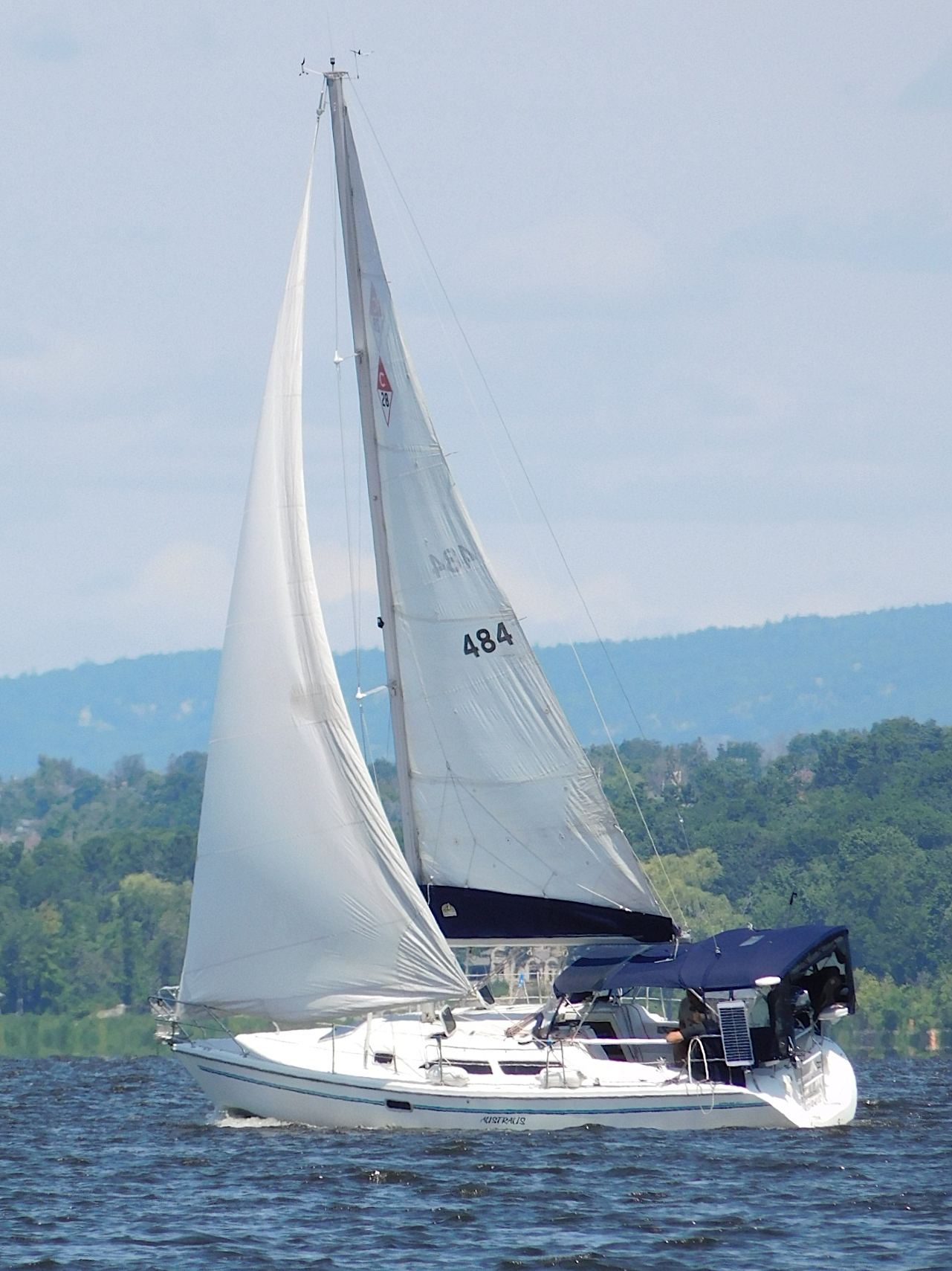 A Catalina 28 Mark II sailboat named Australis.